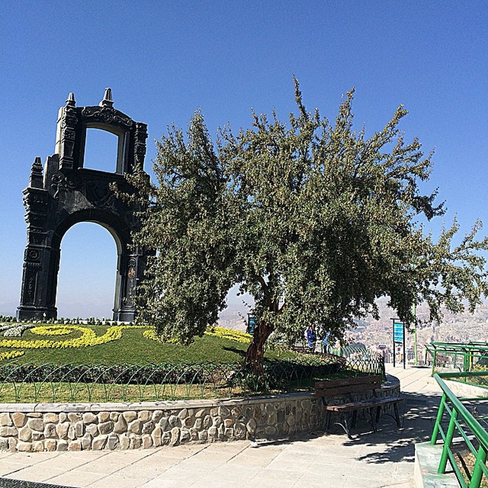 Killi Killi viewpoint in La Paz.